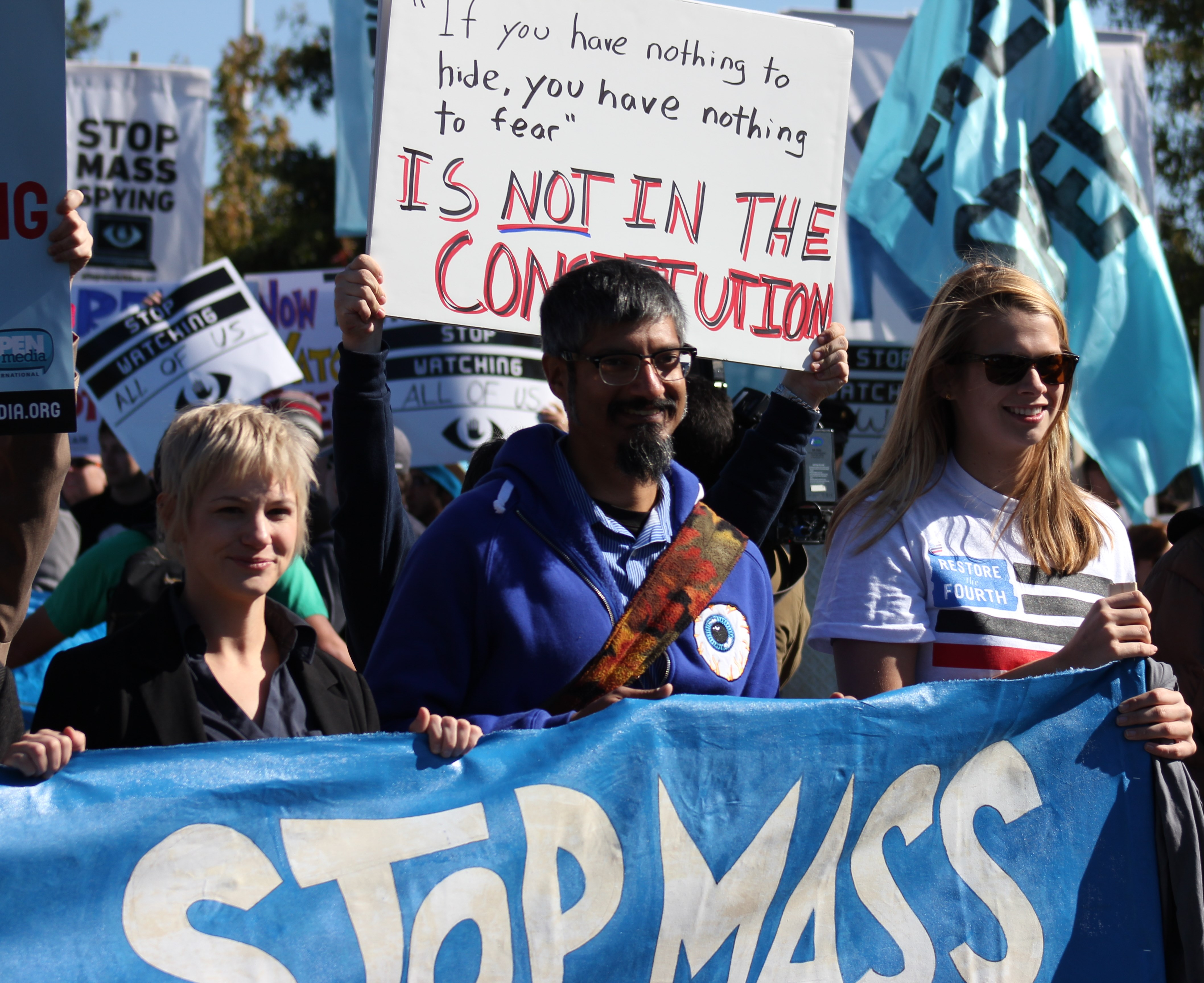 STOP WATCHING US Demonstration Against NSA Mass Surveillance MARCH STEP-OFF from Union Station / Columbus Circle on E Street, NE, Washington DC on Saturday morning, 26 October 2013 by Elvert Barnes Photography Follow STOP WATCHING US / facebook page at Elvert Barnes 26 October 2013 STOP WATCHING US / DC docu-project at